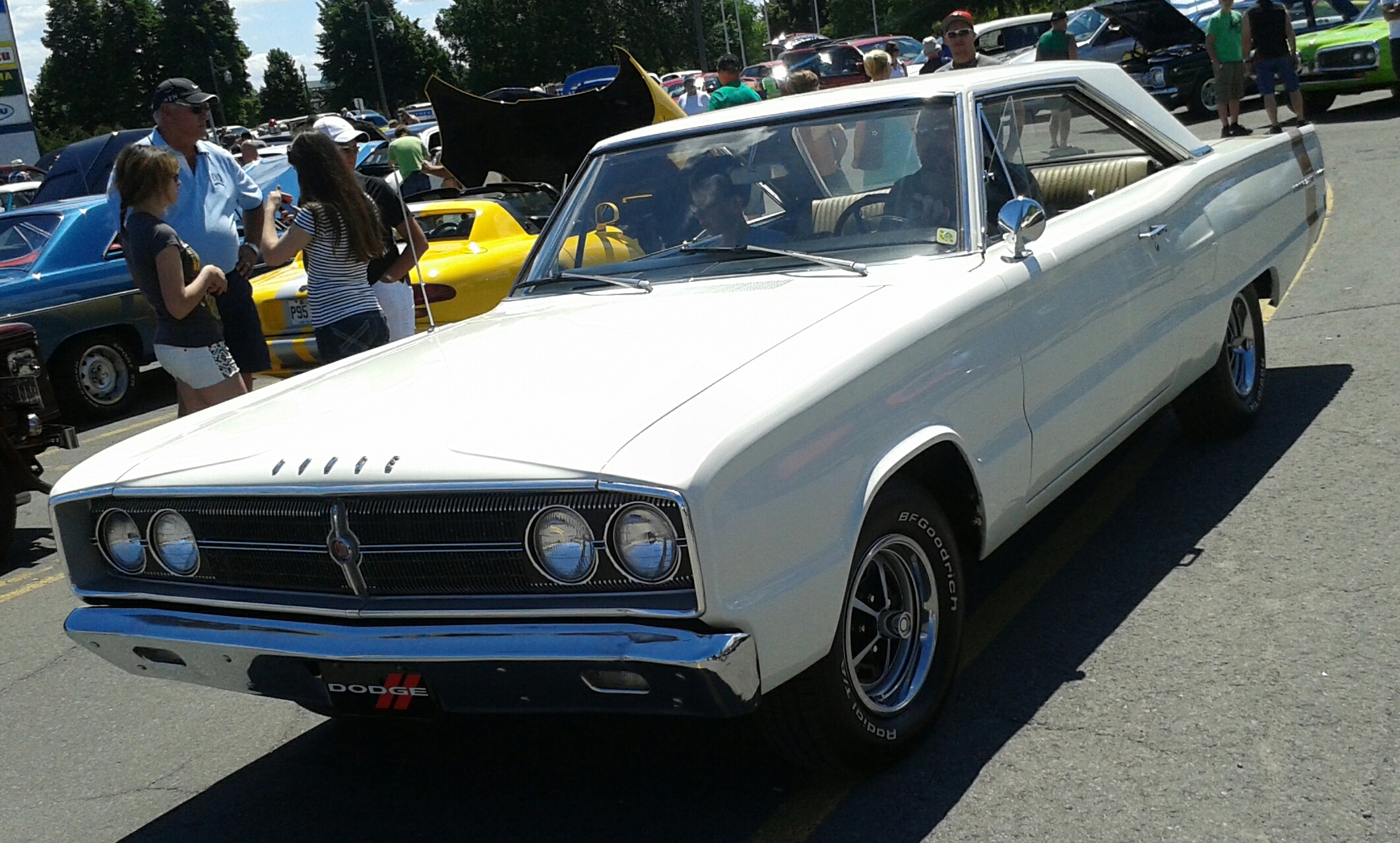 1967 Dodge Coronet photographed in Salaberry-De-Valleyfield, Québec, Canada at the Mopar Valleyfield 2014 car show.